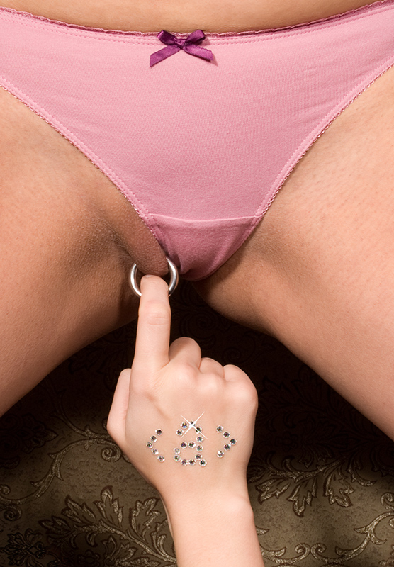 Piercing of the female genitals. A hand is pulling the piercing. " " is written in rhinestones on the hand. Photographer's original decription: " is HTML tag that used to define both hyperlinks and anchors."